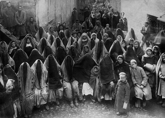 Group of Uzbek women in the old city of Tashkent before leaving the conference on the street, March 8, 1924. See source attribution.